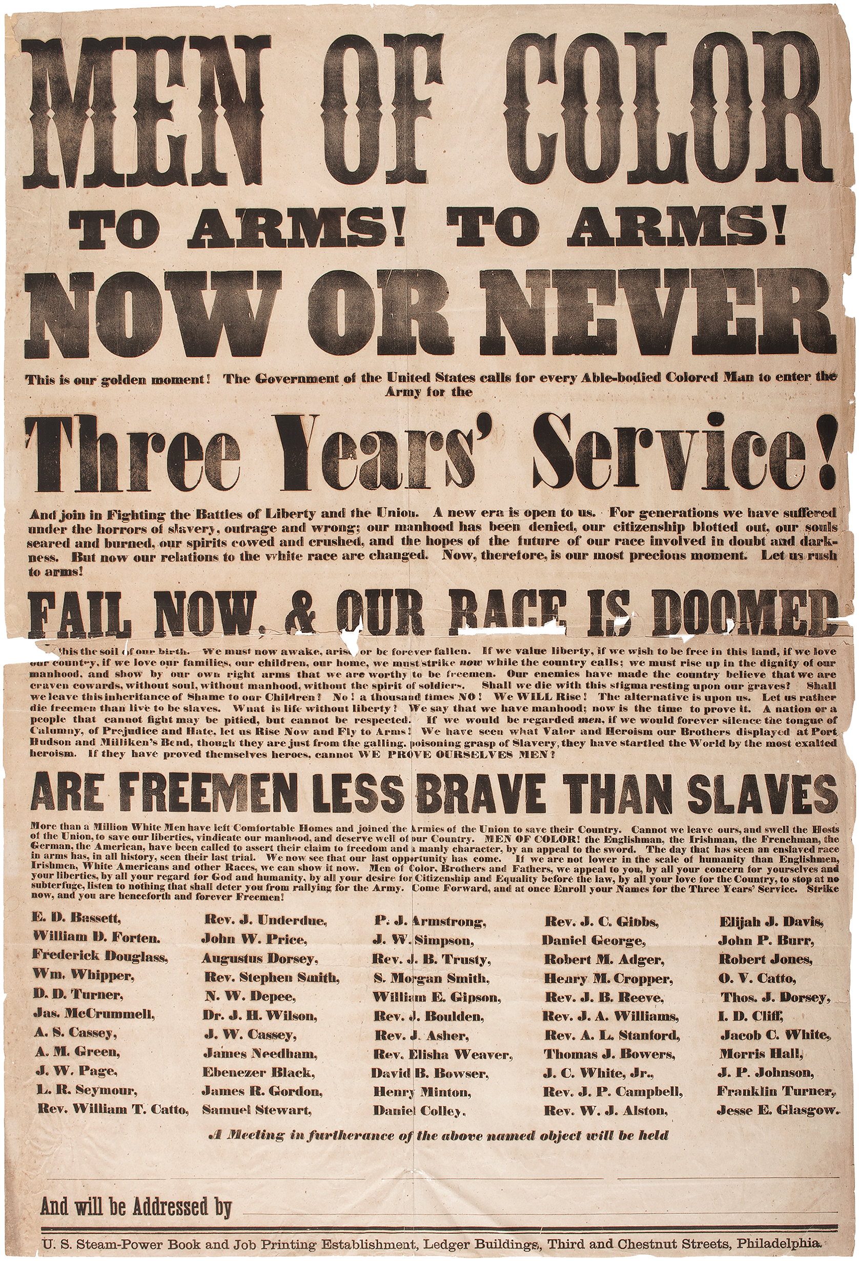 A printed broadside recruiting men of color to enlist in the U.S. military after the Emancipation Proclamation in 1863. The broadside was written by Frederick Douglass, signed by Douglass along with 54 leaders in the Philadelphia African American community, and published in Philadelphia, Pennsylvania. Signers were: Robert M. Adger, Rev. W.J. Alston, P.J. Armstrong, Rev. J. Asher, E.D. Bassett, Ebenezer Black, Rev. J. Boulden, Thomas J. Bowers, David B. Bowser, John P. Burr, Rev. J.P. Campbell, A.S. Cassey, J.W. Cassey, O.V. Catto, Rev. Wm. T. Catto, I.D. Cliff, Daniel Colley, Henry M. Cropper, Elijah J. Davis, N.W. Depee, Augustus Dorsey, Thomas. J. Dorsey, Frederick Douglass, Wm. D. Forten, Daniel George, Rev. J.C. Gibbs, Wm. E. Gipson, Jesse E. Glasgow, Jameso R. Gordon, A.M. Green, Morris Hall, J.P. Johnson, Robert Jones, Jas. McCrummell, Henry Minton, James Needham, J.W. Page, John W. Price, Rev. J.B. Reeve, L.R. Seymour, J.W. Simpson, S. Morgan Smith, Rev. Stephen Smith, Rev. A.L. Stanford, Samuel Stewart, Rev. J B Trusty, D.D. Turner, Franklin Turner, Rev. J. Underdue, Rev. Elisha Weaver, Jacob C. White, J.C. White, Jr., Wm. Whipper, Rev. J.A. Williams, Dr. J.H. Wilson